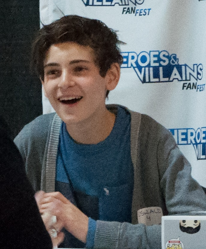 David Mazouz in february 2016 at Heroes and villains